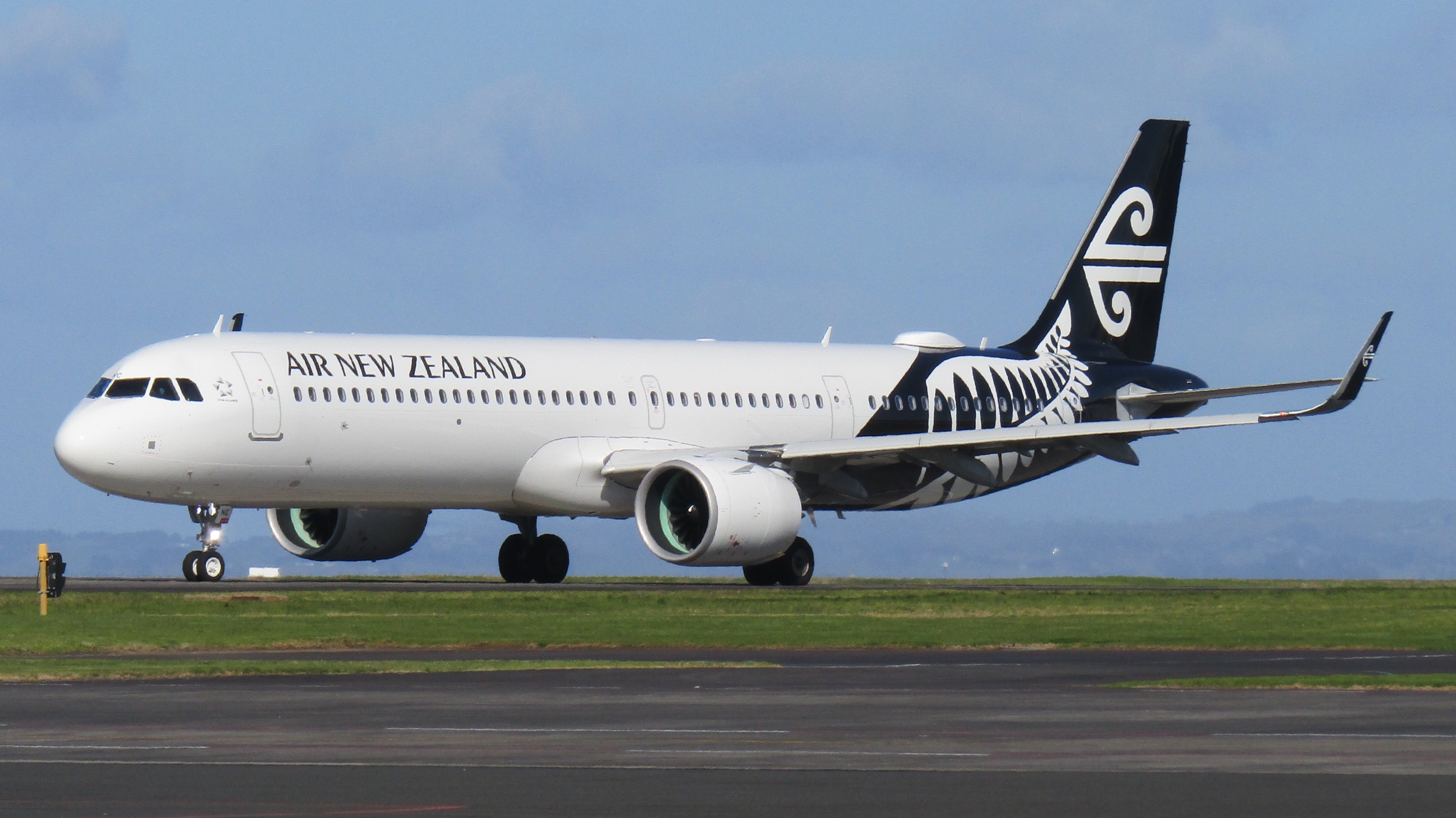 The third of Air New Zealand's A321neos to be delivered and I believe the first image of one on Wikipedia.